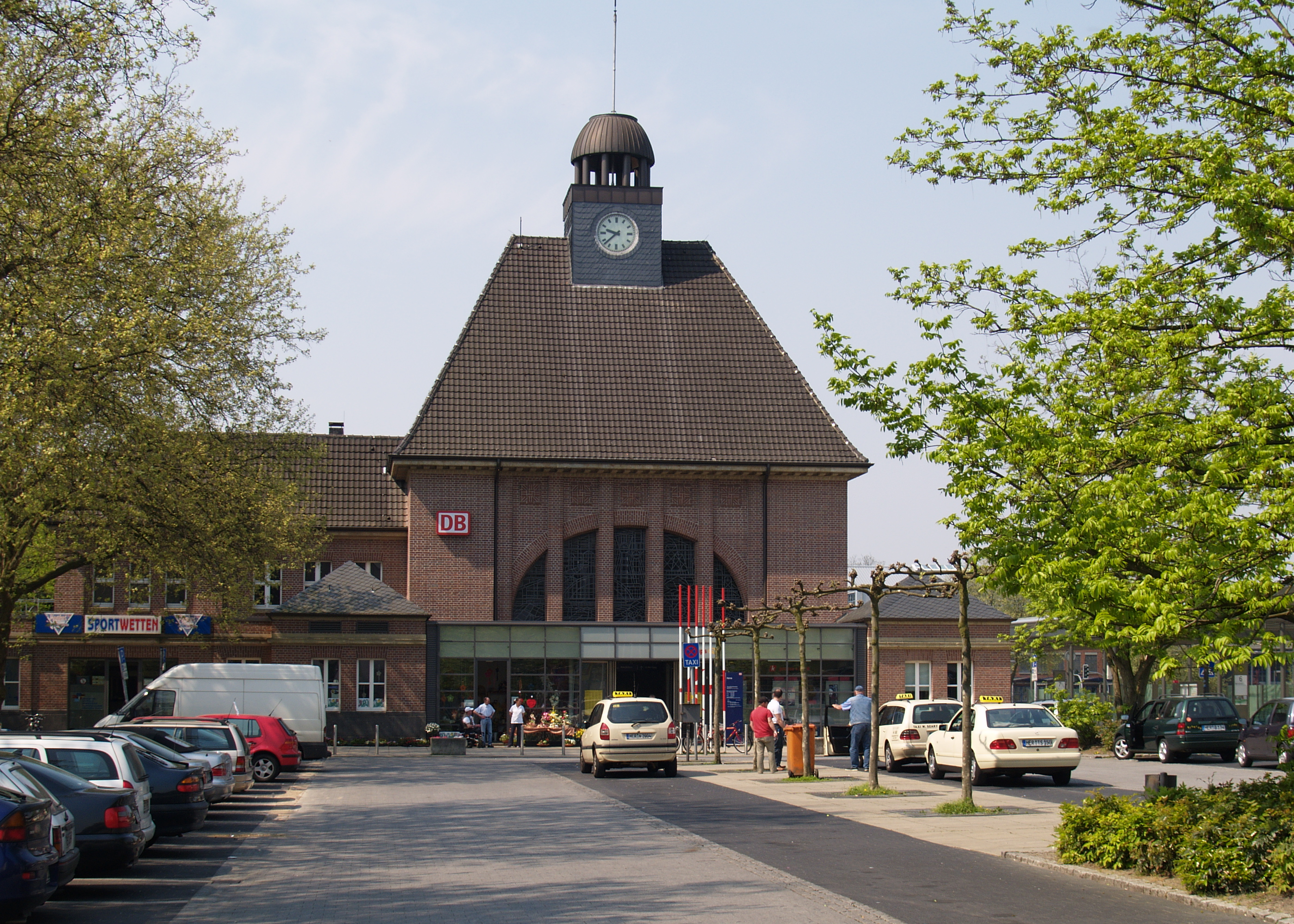 The east side of the trainstation and taxi places in Herne, Germany